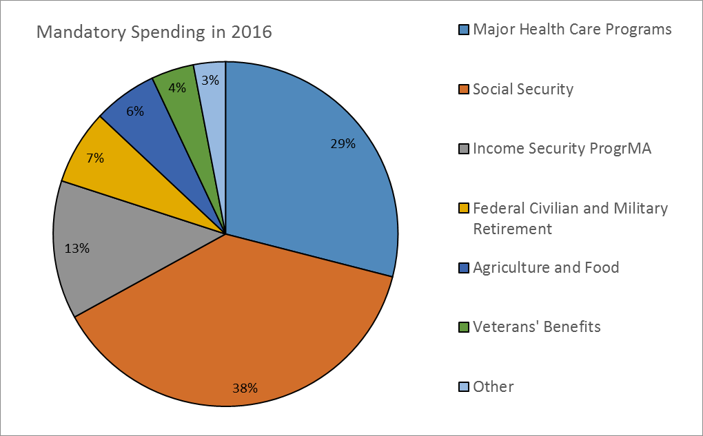 Mandatory spending chart for FY 2016